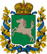 Tomsk gubernia (Russian empire), coat of arms